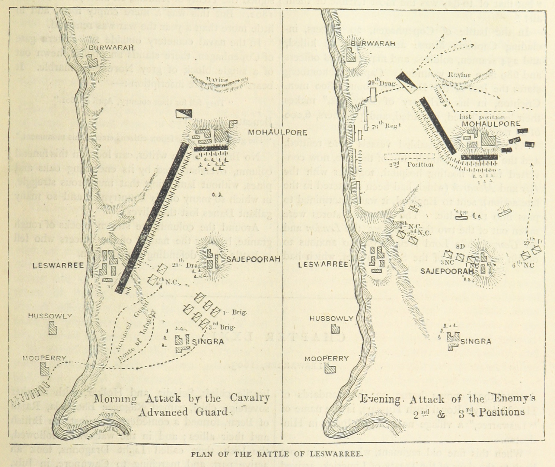 A map of the November 1, 1803 Battle of Laswari.